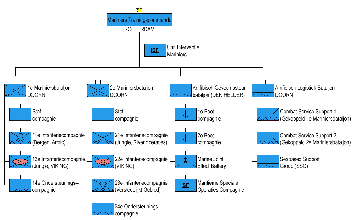 Structure of the Korps Mariniers - Marine Infantry; Netherlands Navy. (Dutch version)